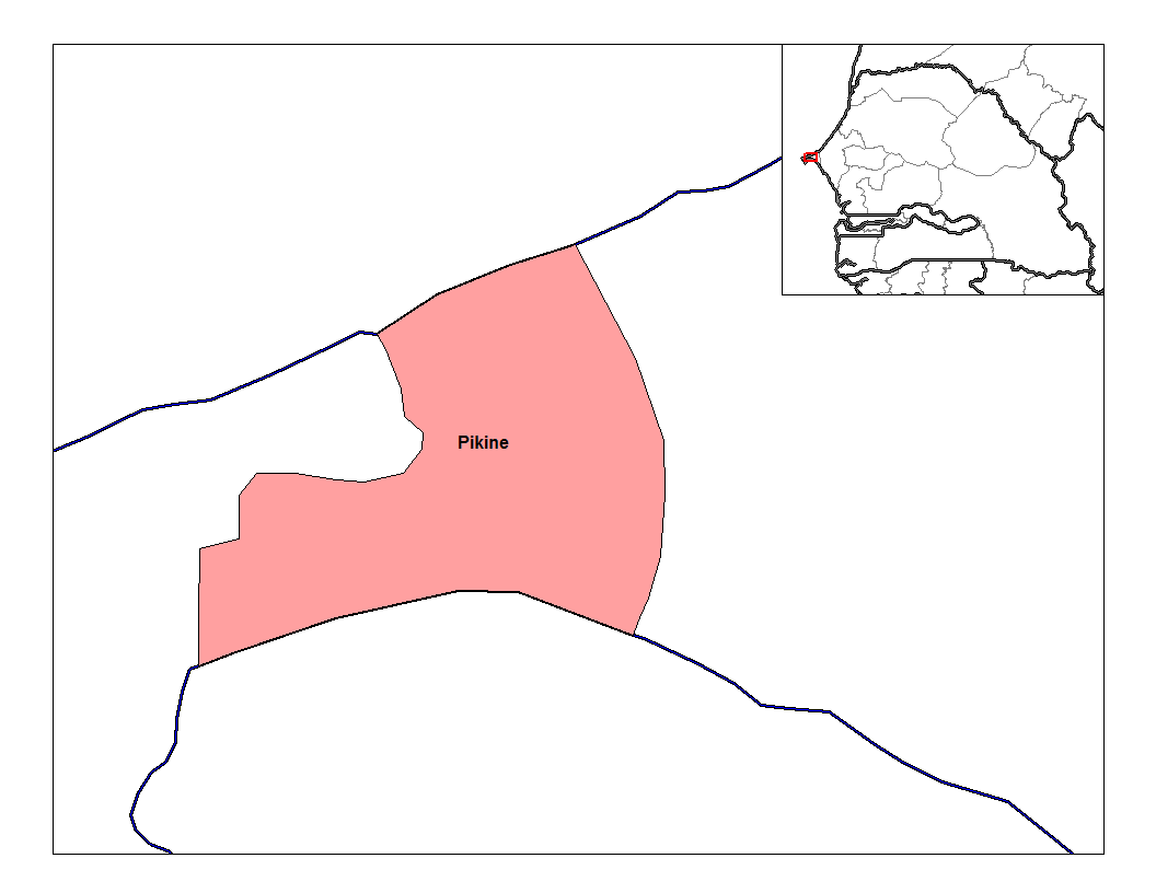 Map of the arrondissement of Pikine department in Senegal.